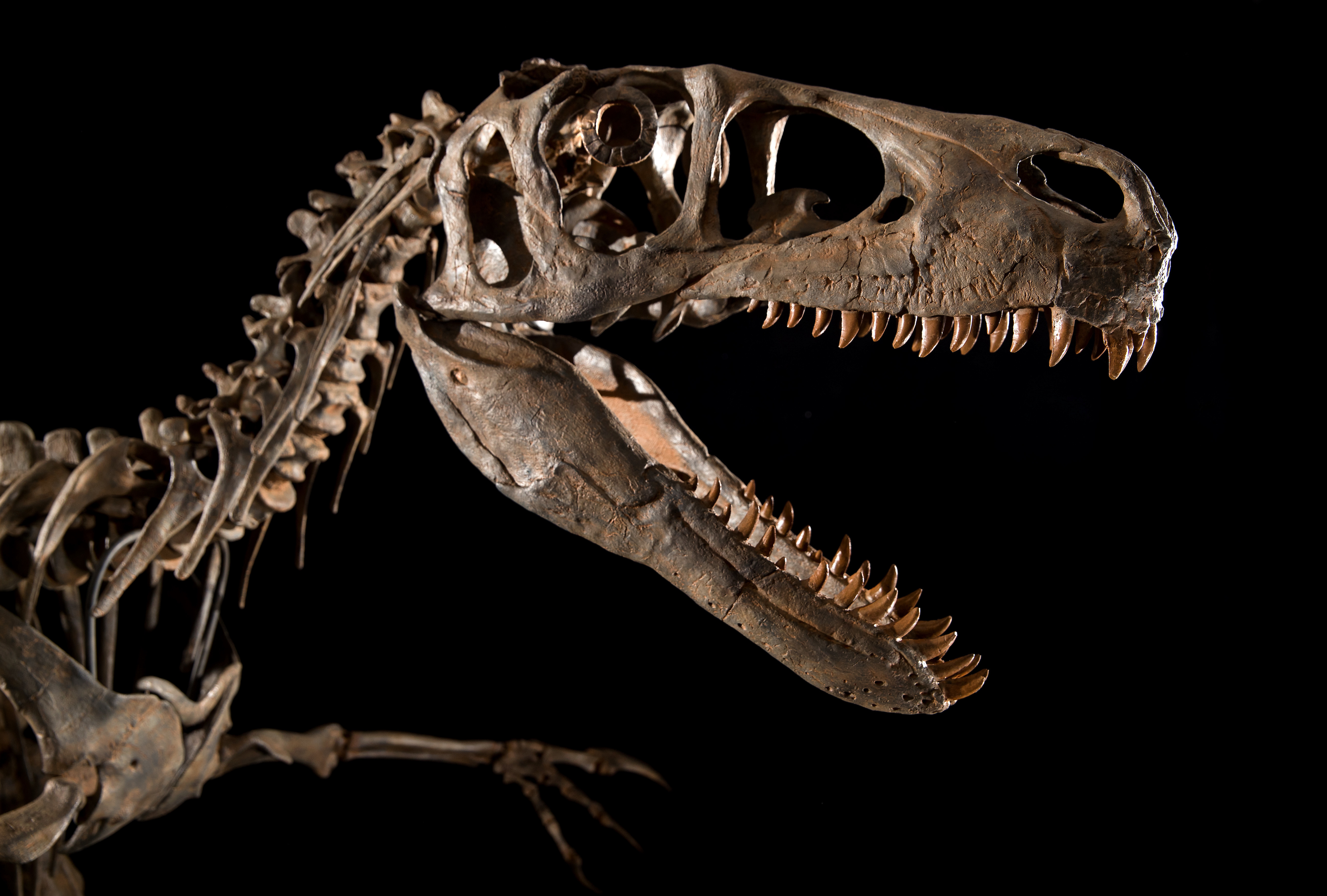 1801-46 Utahraptor skeleton BYU's Museum of Paleontology displays a Utahraptor skeleton cast from bones in the BYU collection (skull detail). January 26, 2018 Photo by Jaren Wilkey/BYU (801)422-7322